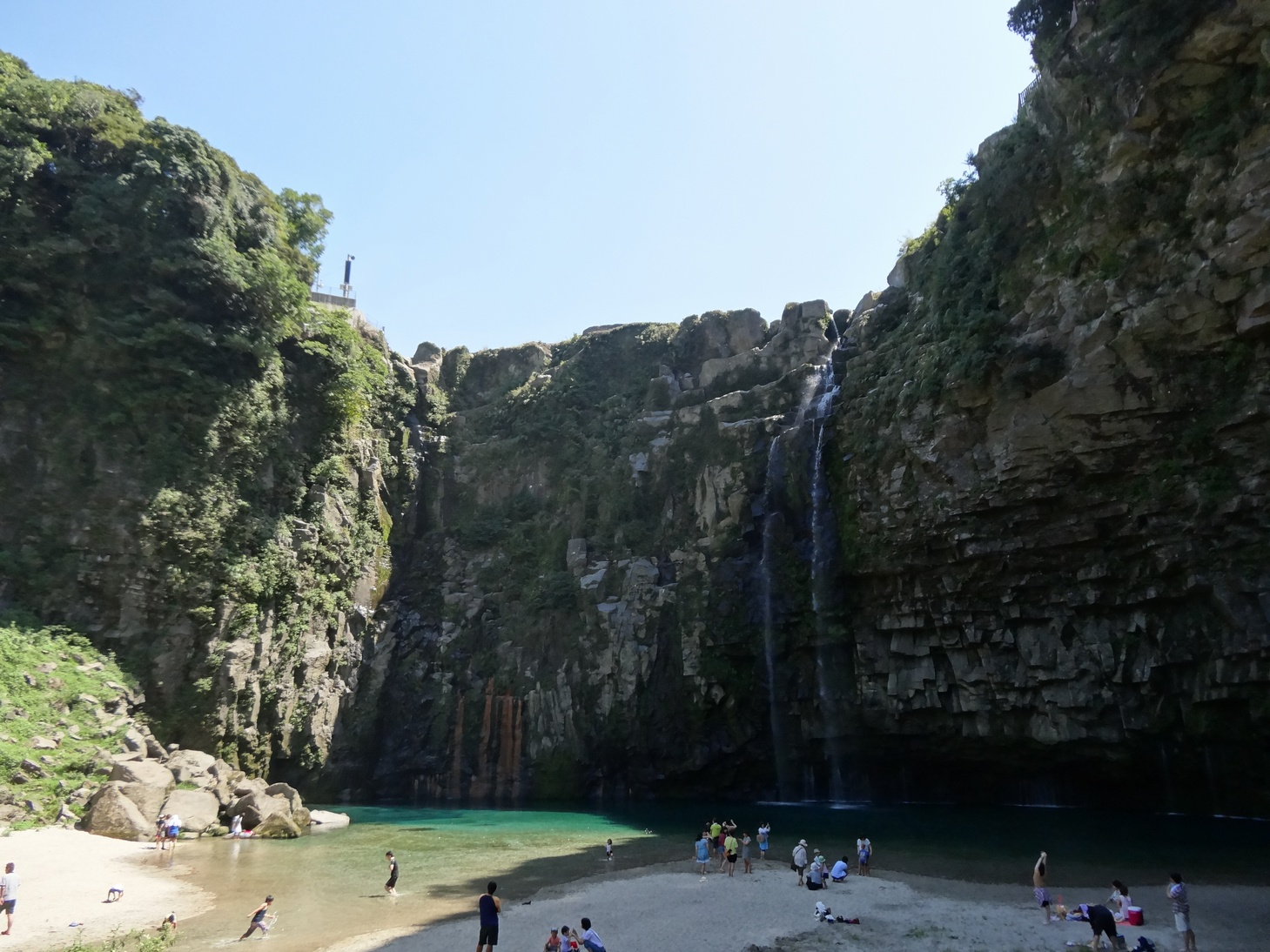 Ogawa falls (Southern Osumi Peninsula, Kagoshima Prefecture, Japan)